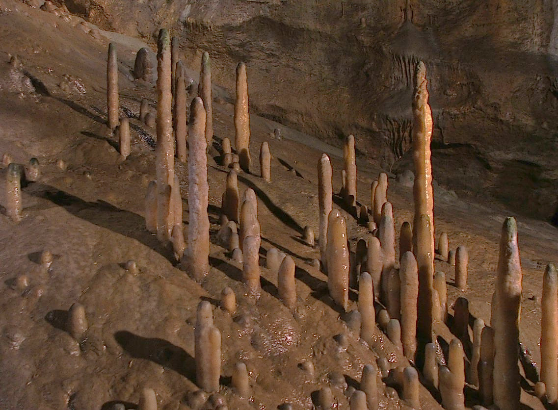 Stalagtites in the Teufelshoehle near Pottenstein/Germany